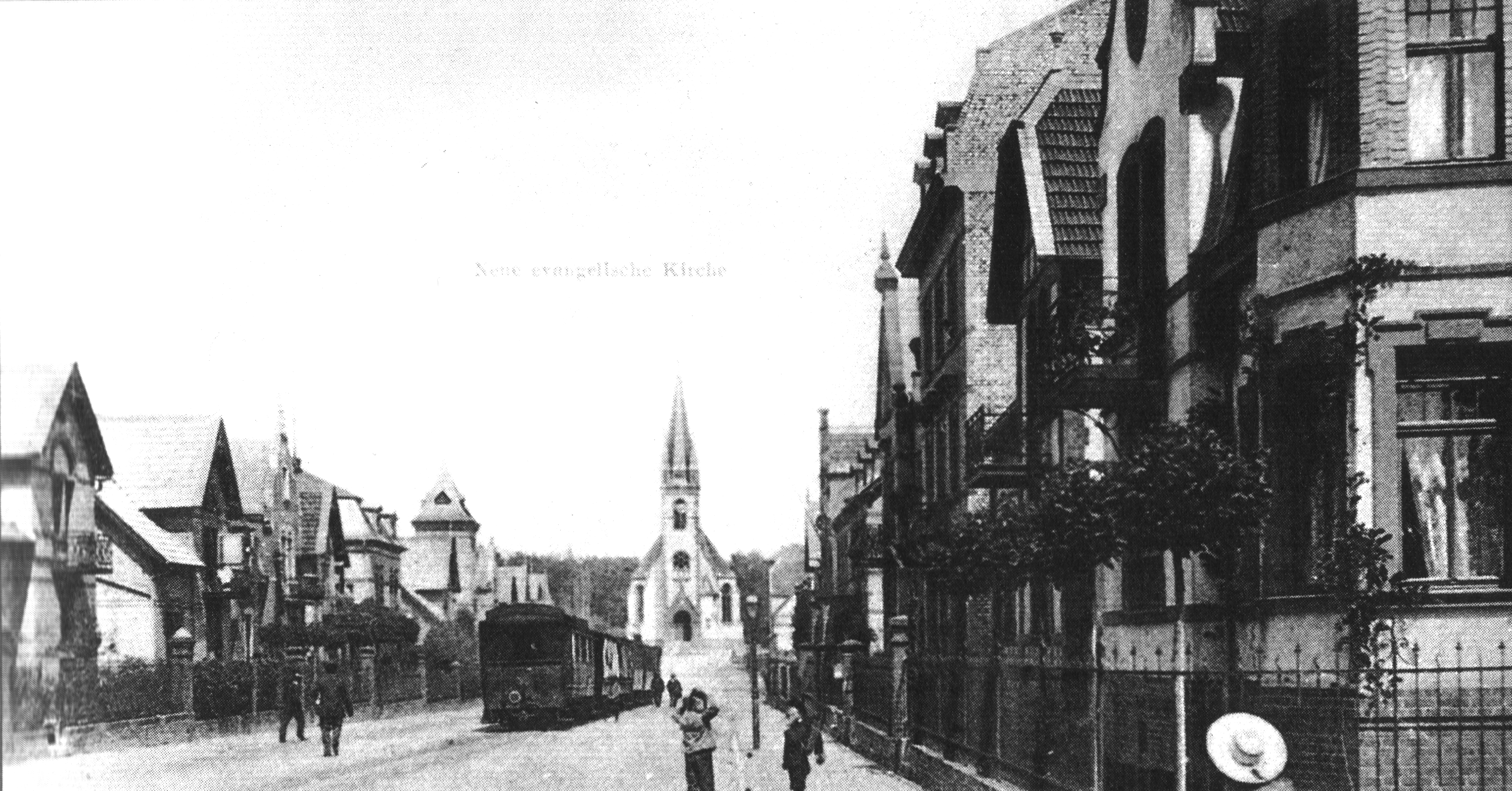 Steam-driven streetcar in Mainz Gonsenheim